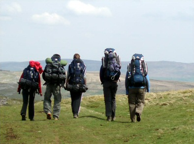 Group of young people undertaking the expedition part of the Duke of Edinburgh's Award